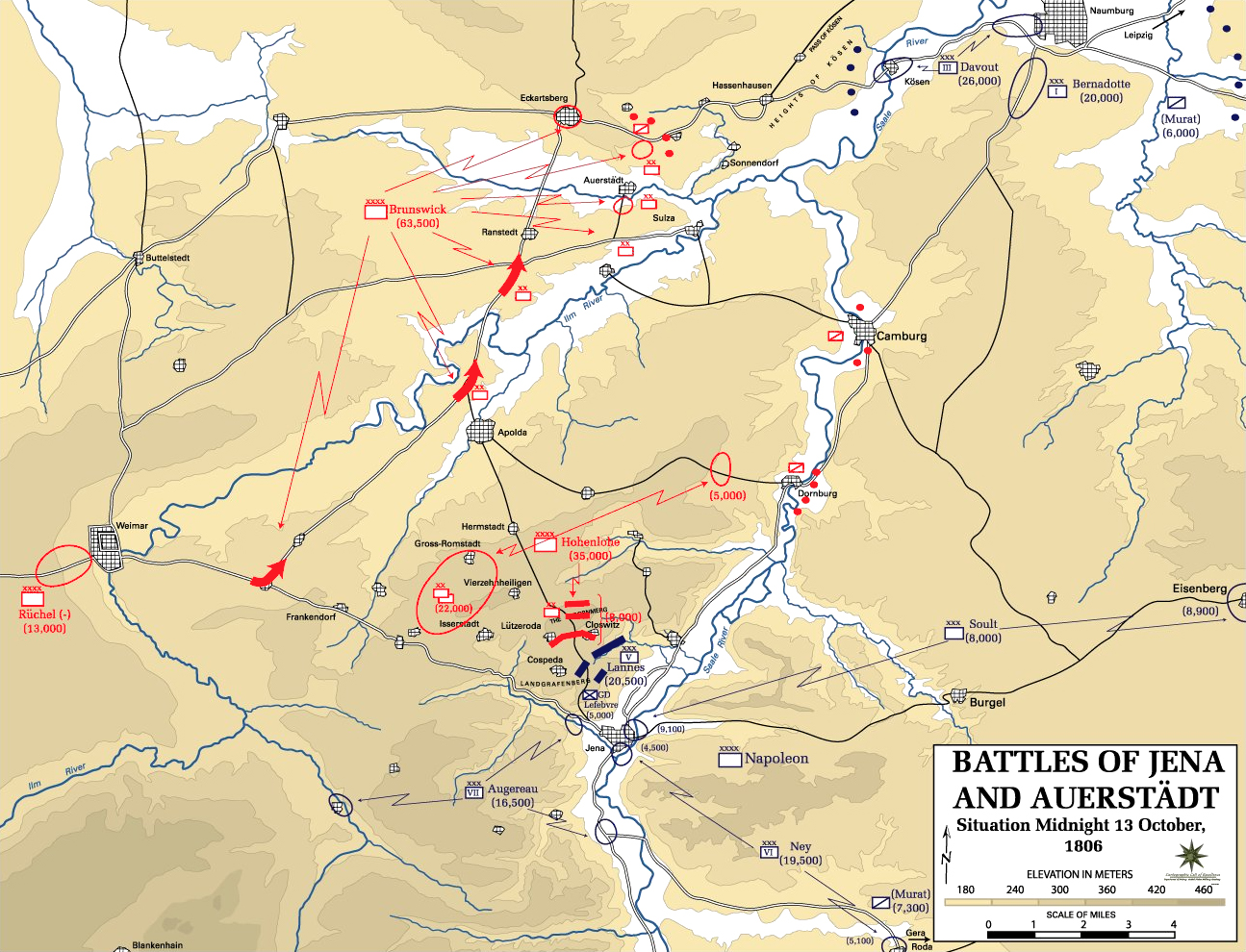 Battle of Jena-Auerstedt - 10 October to 14 October 1806 Background information: In 1938 the predecessors of what is today The Department of History at the United States Military Academy began developing a series of campaign atlases to aid in teaching cadets a course entitled, "History of the Military Art." Since then, the Department has produced over six atlases and more than one thousand maps, encompassing not only America’s wars but global conflicts as well. In keeping abreast with today's technology, the Department of History is providing these maps on the internet as part of the department's outreach program. The maps were created by the United States Military Academy’s Department of History and are the digital versions from the atlases printed by the United States Defense Printing Agency. We gratefully acknowledge the accomplishments of the department's former cartographer, Mr. Edward J. Krasnoborski, along with the works of our present cartographer, Mr. Frank Martini. Please be aware that these maps are large in file size and may require substantial download times.